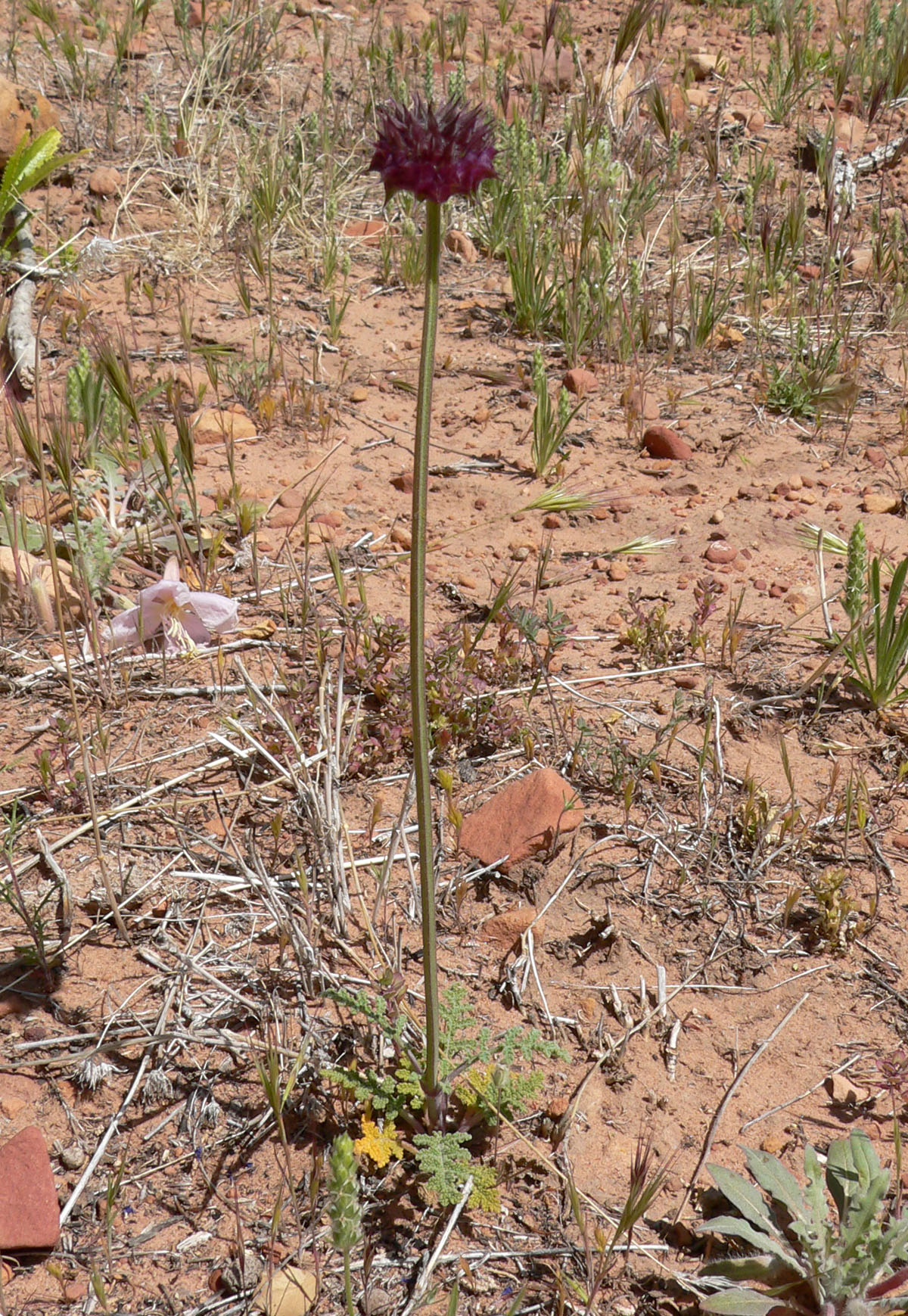 Salvia columbariae in the sandy area of Pine Creek Canyon east of the old homestead, Red Rock Canyon, Spring Mountains, southern Nevada (elev. about 1200 m)